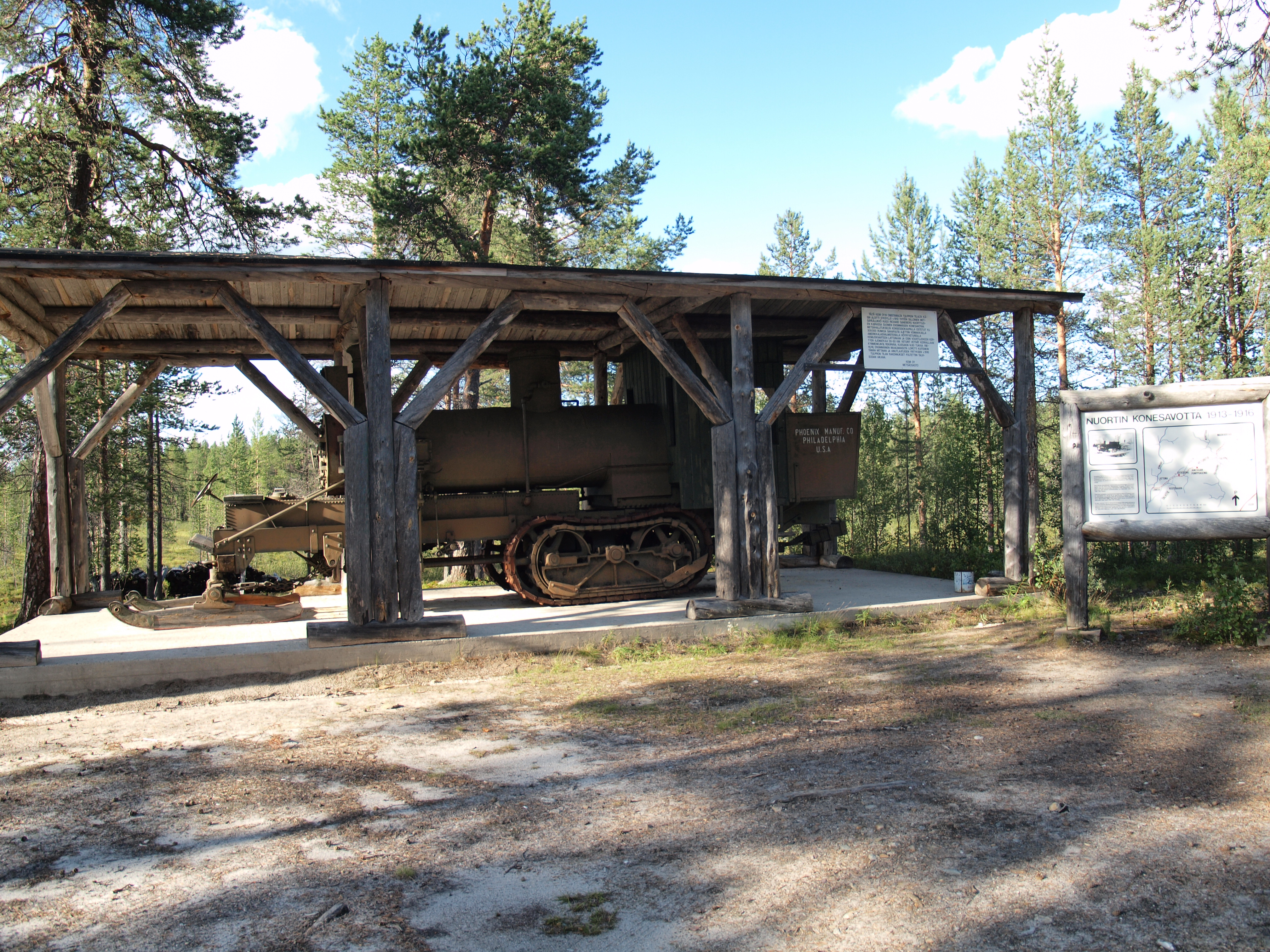 The so-called "Samperin veturi" ("Samperi locomotive"), a tread-based cargo locomotive brought from the United States to Lapland, Finland by Hugo Richard Sandberg (hence the name) in the early 1910s. The locomotive is now a museum exhibit in Tulppio, Savukoski, Finland.